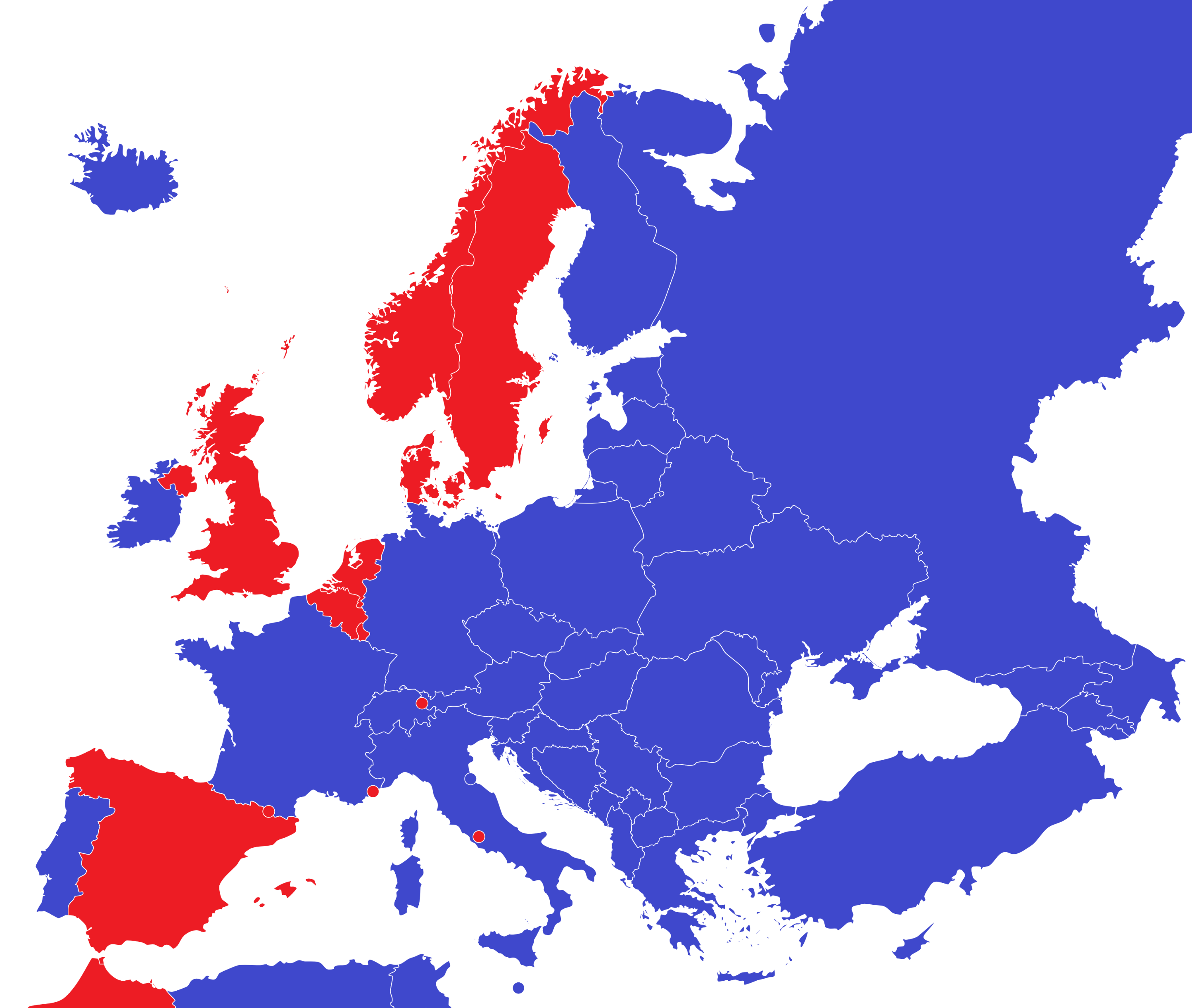 Monarchies and republics in Europe in 2015. Monarchies (12) Republics (35) The Republic of Turkey is counted amongst Europe, the Russian Federation as a single republic, the Republic of Kosovo (recognised by most other European states) as an independent republic, Vatican City as an elective monarchy. The Republics of Azerbaijan, Georgia, Armenia and Kazakhstan are not shown on this map and excluded from the count. The Turkish Republic of Northern Cyprus (recognised only by Turkey) and all other unrecognised states are excluded from the count.